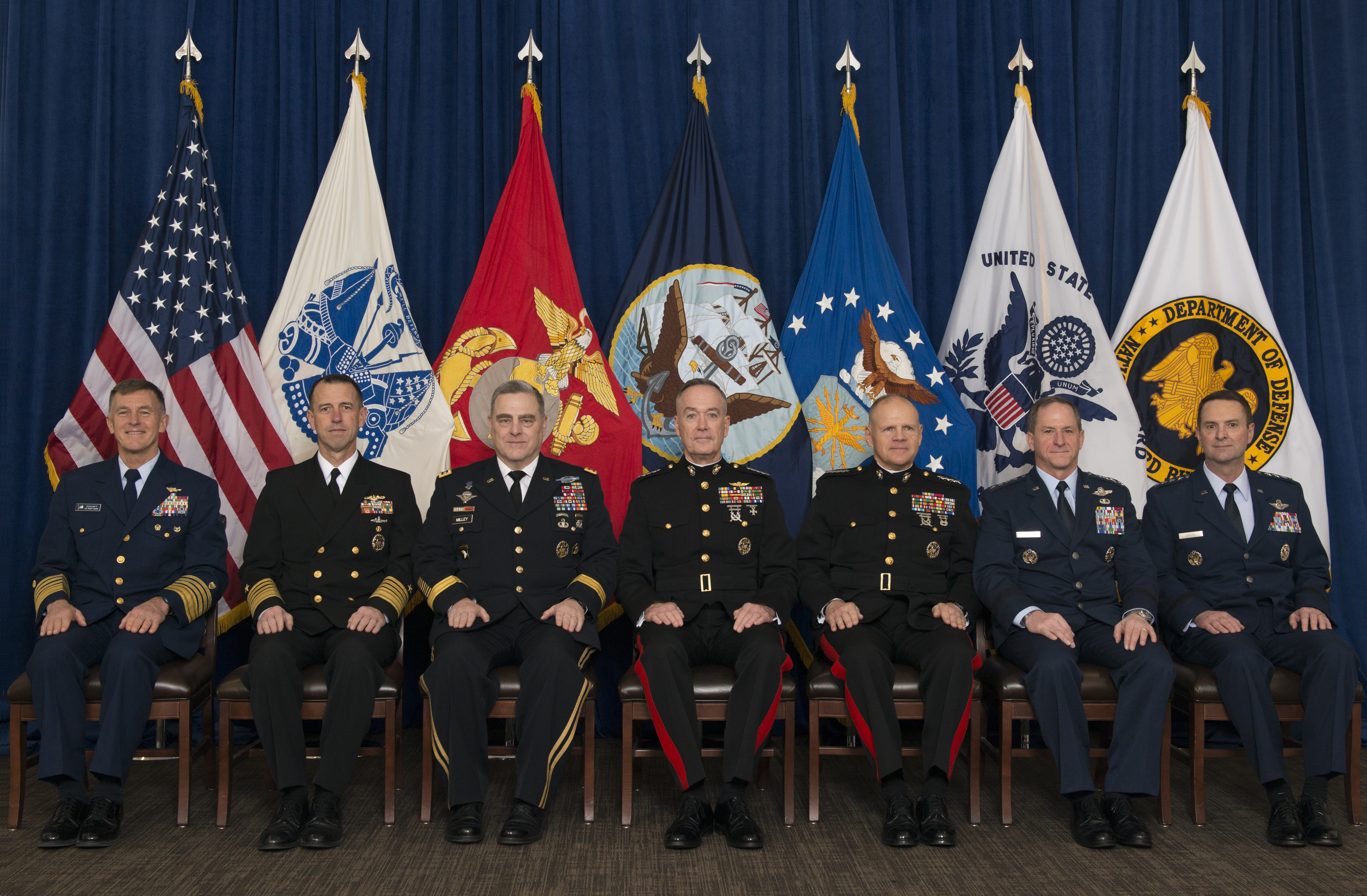 Chairman of the Joints Chiefs Inauguration 2017.Seated from left to right: Admiral Paul F. Zukunft (Commandant of the Coast Guard), Admiral John M. Richardson (Chief of Naval Operations), General Mark A. Milley (Chief of Staff of the Army), General Joeseph F. Dunford, Jr. (Chairman of the Joint Chiefs of Staff), General Robert B. Neller (Commandant of the Marine Corps), General David L. Goldfein (Chief of Staff of the Air Force), and General Joseph L. Lengyel (Chief of the National Guard Bureau).